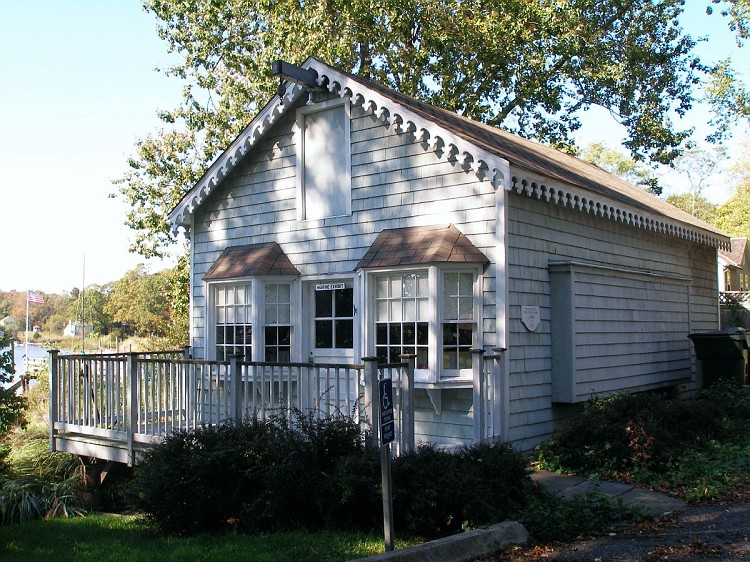 The 1880 boathouse at Pinkney Park in Rowayton, Norwalk, Connecticut. Part of the Five Mile River Landing Historic District.